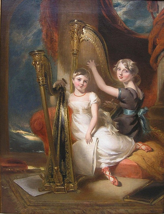 portrait of Louisa Sharpe (1798-1843) and her sister Eliza Sharpe (1796-1874) by George Henry Harlow